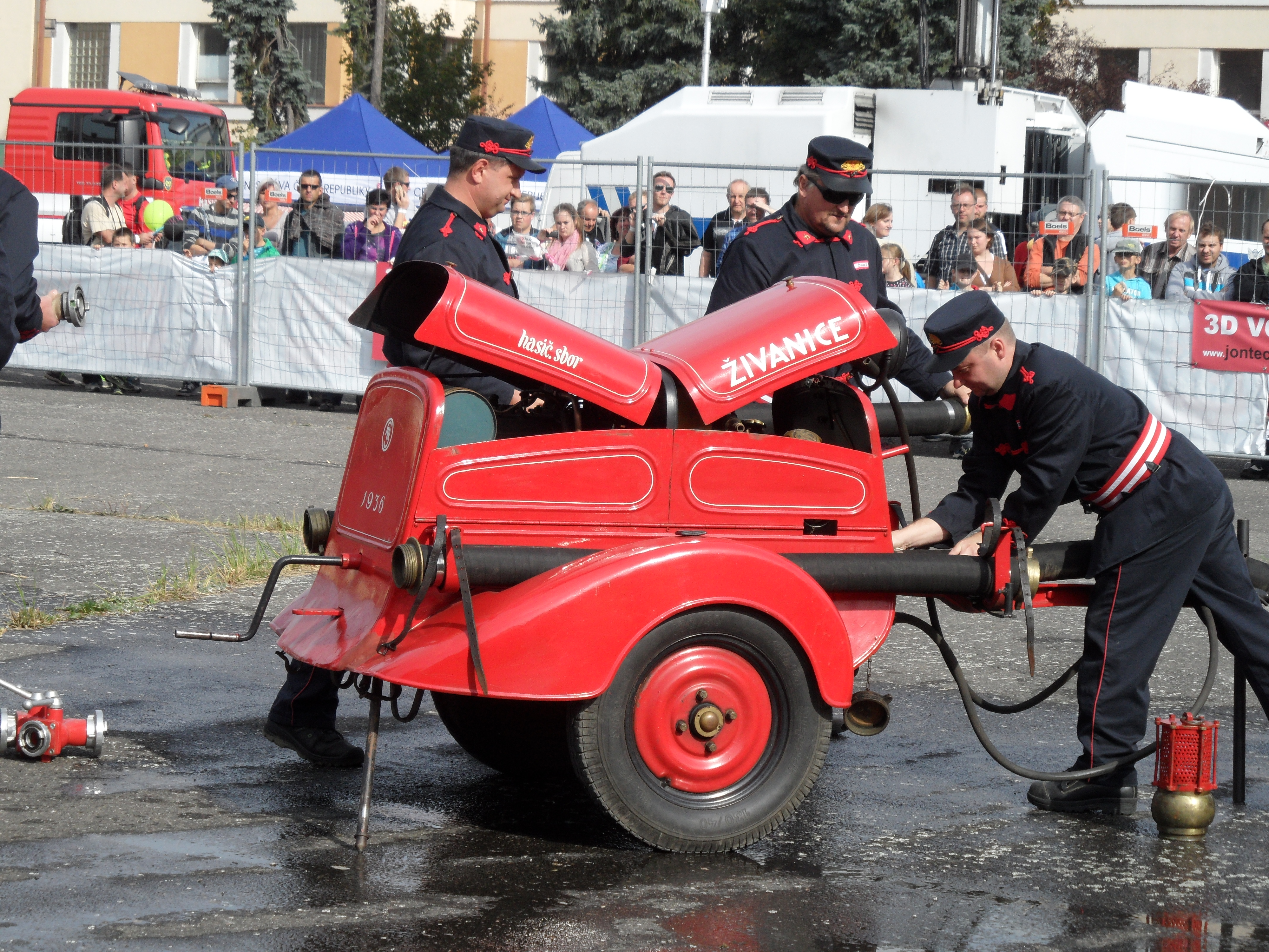 Retro City. Saturday: Main Programme C03. Fire Fighters from Živanice, Engine from Year 1932. Pardubice, Pardubice District, the Czech Republic.